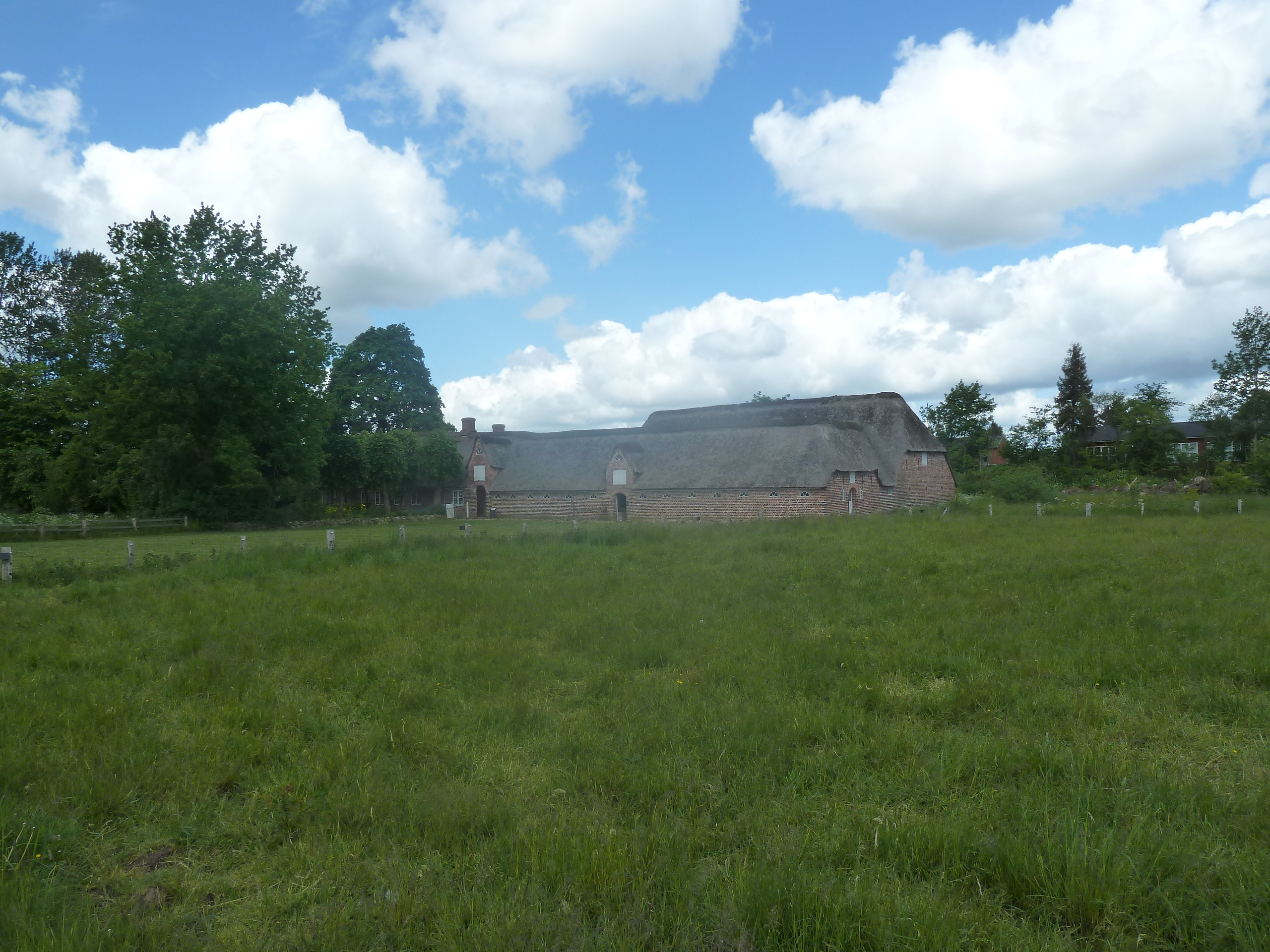 Farm from Sønder Sejerslev, Sønderjylland, now on Frilandsmuseet (the open air museum) north of Copenhagen.